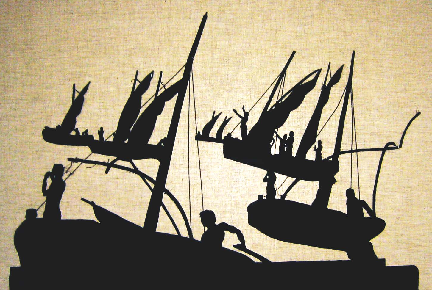 Ombra francese